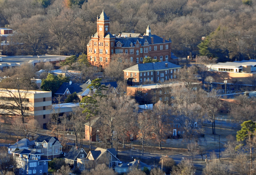 Biddle Memorial Hall, Johnson C. Smith University, Beatties Ford Rd. and W. Trade St. Charlotte (top center)